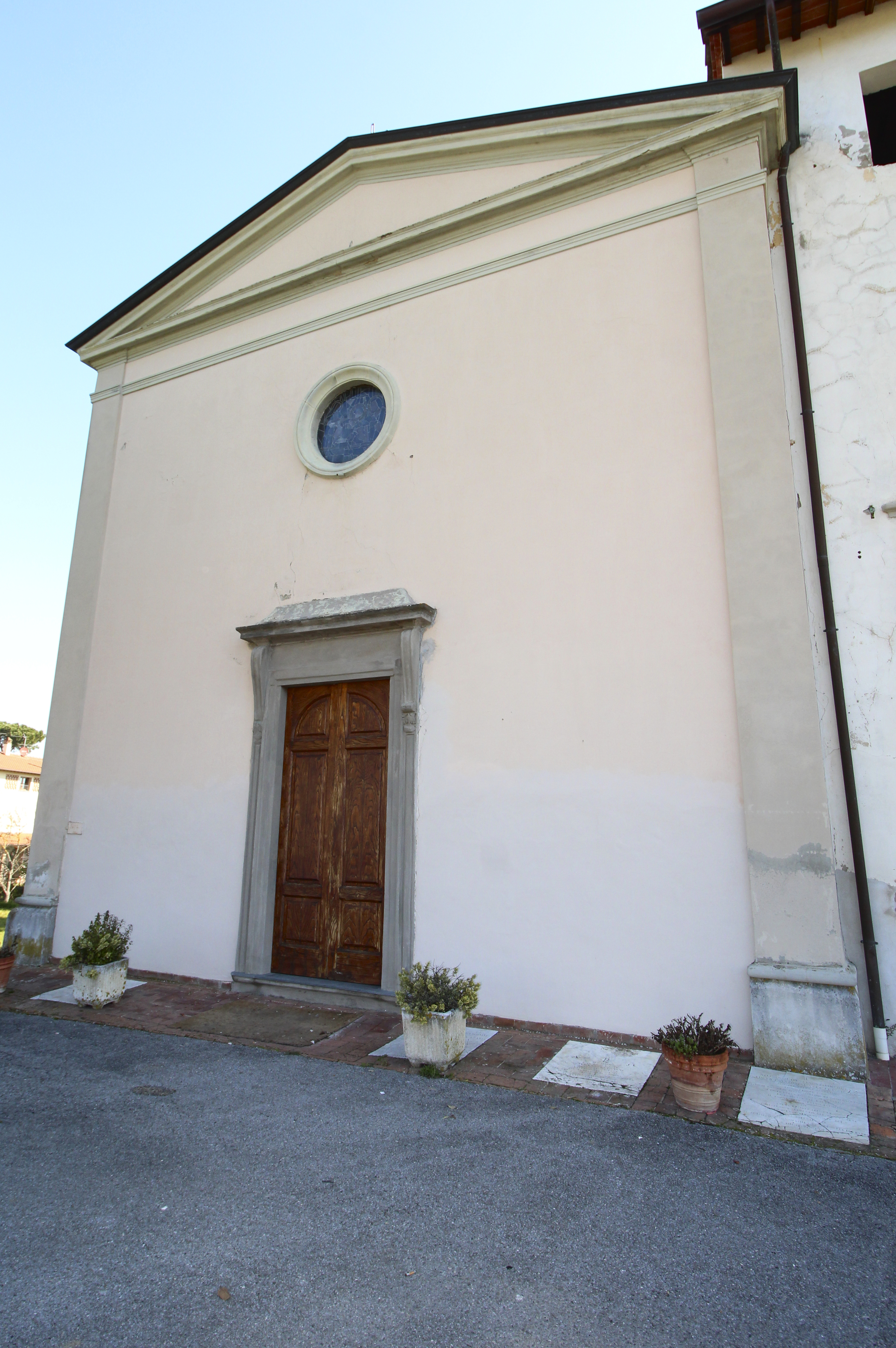 Church Santi Filippo e Giacomo, Ponte a Elsa, San Miniato, Province of Pisa, Tuscany, Italy